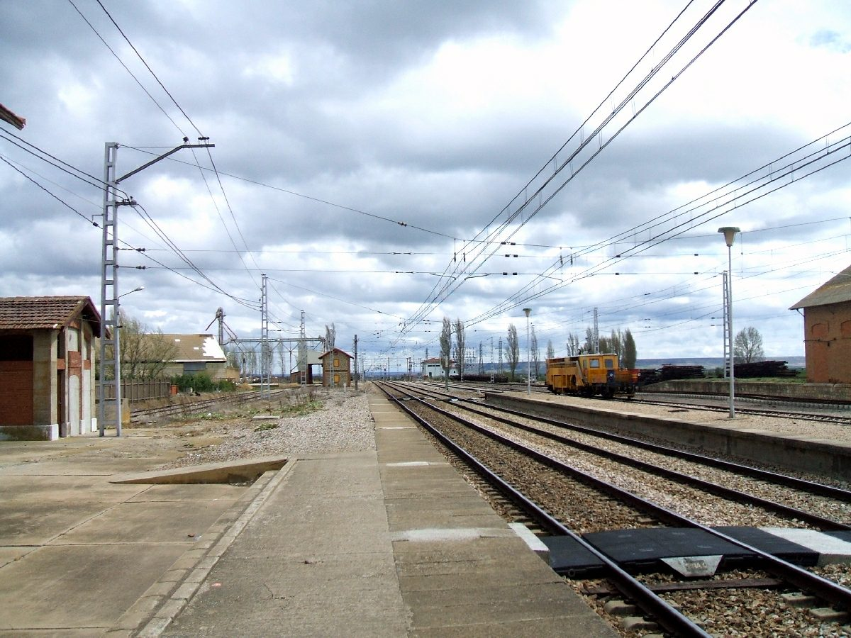 Apeadero ferroviario en Becerril de Campos